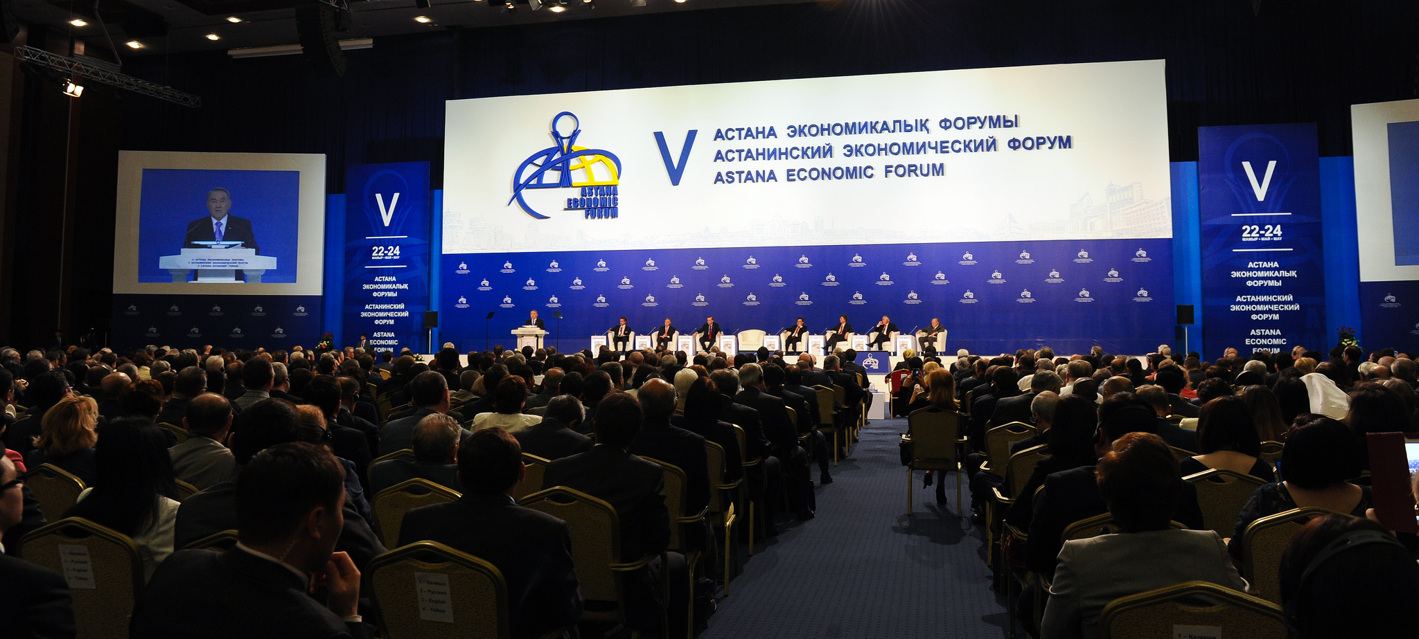 Leaders at the Astana Economic Forum.